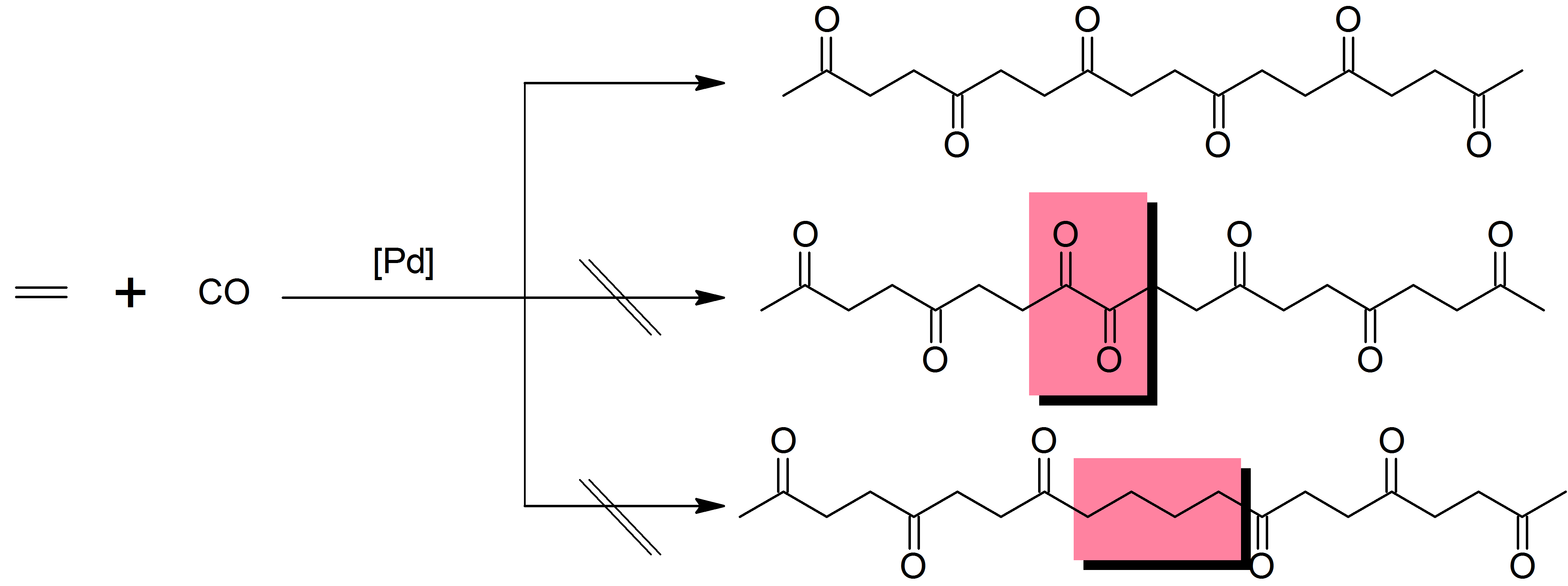 Perfect co-polymerization of ethylene and carbon monoxide to give polyketones